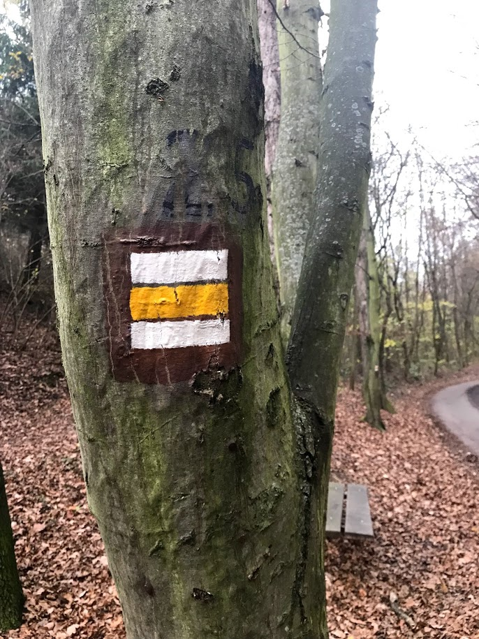 Značení naučné stezky.